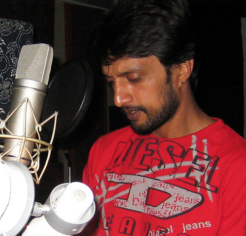 Sudeep at a TeachAIDS recording session in Bangalore, India.